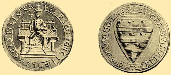 Emeric of Hungary golden seal